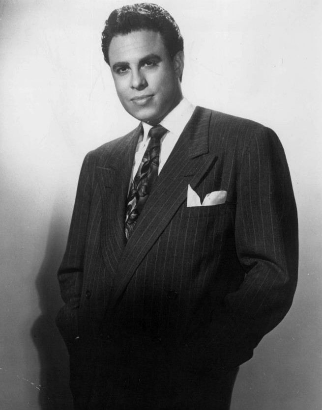 Photo of vocalist George London.